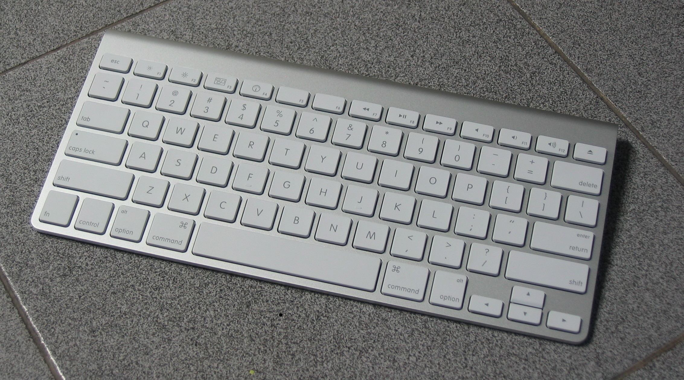 Apple Wireless Keyboard - second generation, aluminum slim profile